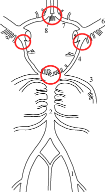 Translate File:Circulus_arteriosus_SAB_Lokalisationen.png into Vietnamese